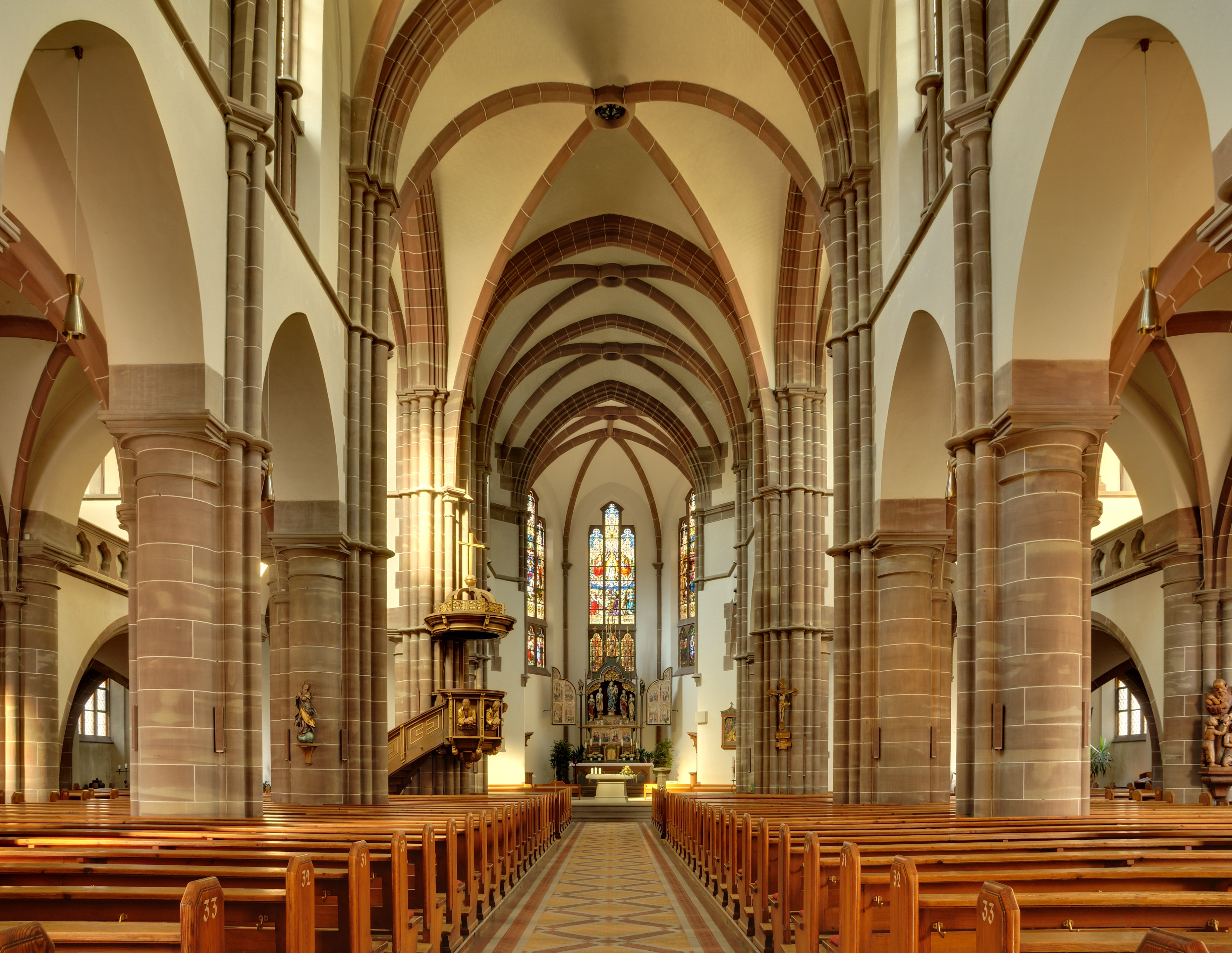 Schönau: Churches of the Assumption